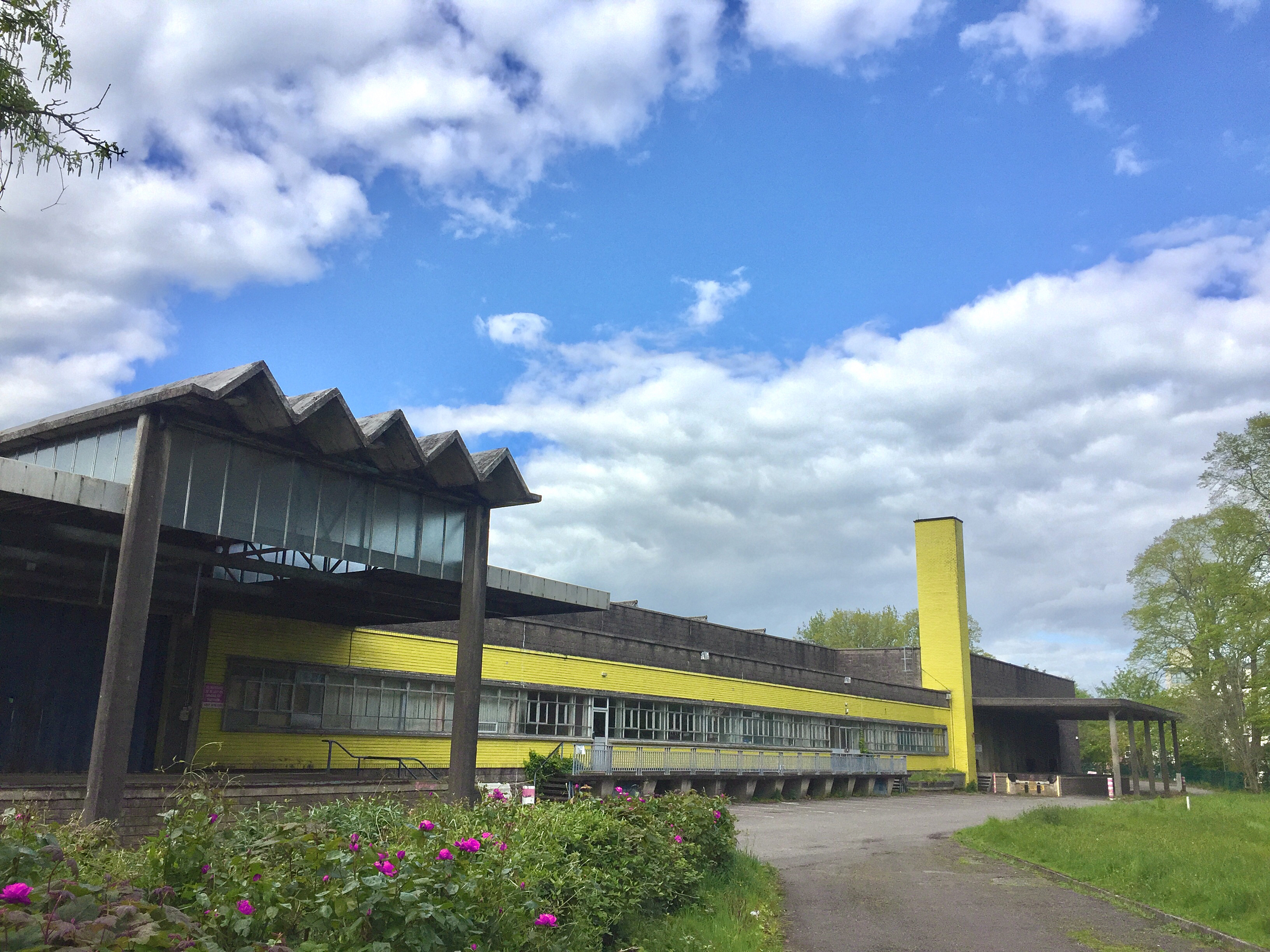 Cork Distillers Bottling plant (1964), later the Irish Distillers Bottling Plant, North Mall, Cork City by architect Frank Murphy